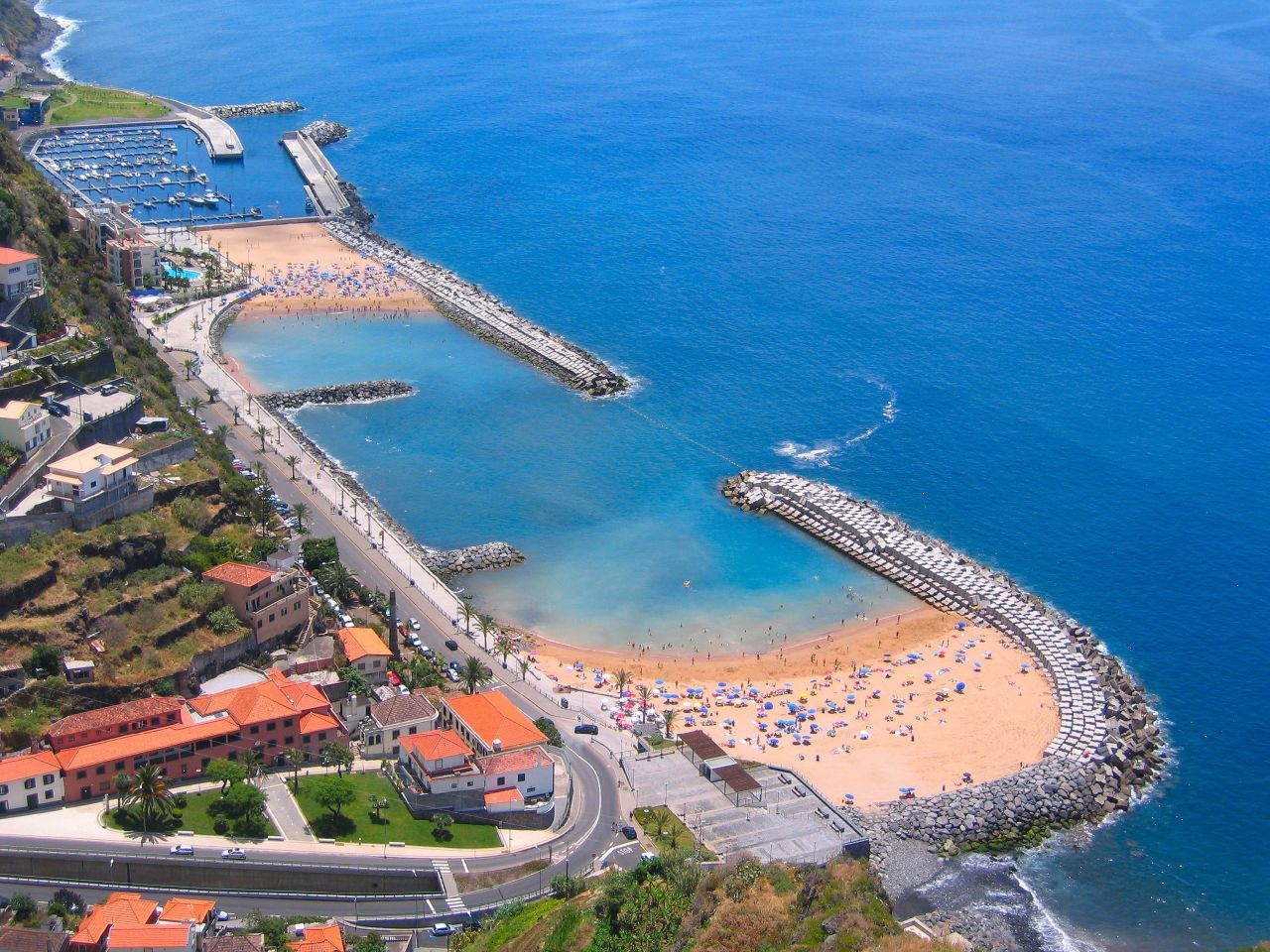 Calheta Beach, A golden man-made sandy beach on the island. The sand was brought (mainly) from Morocco, but also from Figueira da Foz (Portugal).